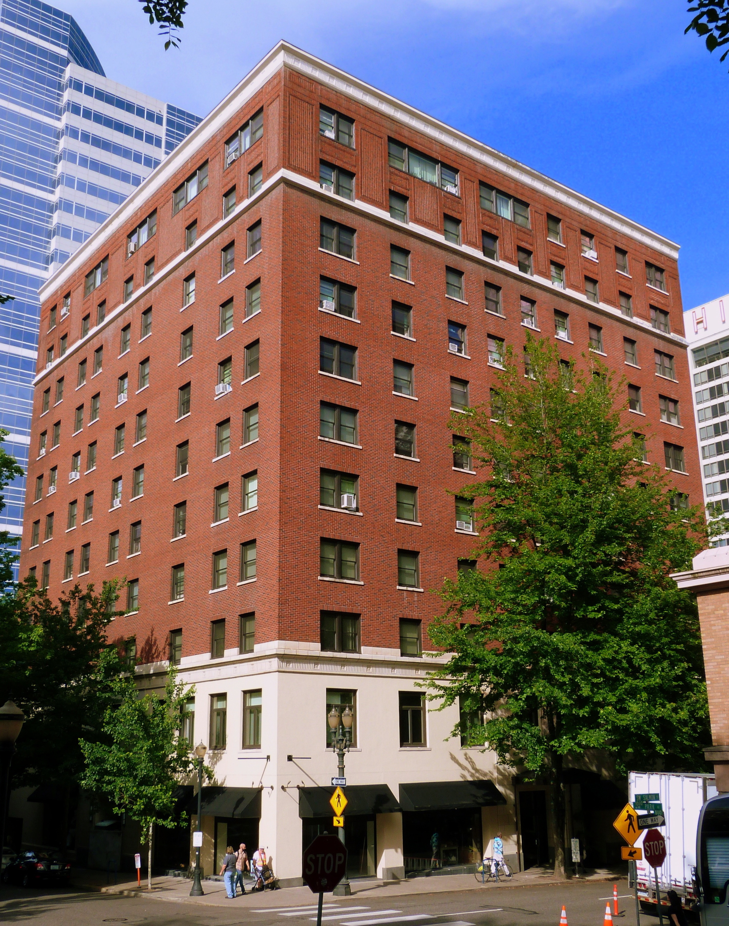 The historic Heathman Hotel (original Heathman building, built 1926), located at 723 Southwest Salmon Street in Portland, Oregon, United States, is listed on the US National Register of Historic Places. As of the photo date, the building is in use as affordable housing.